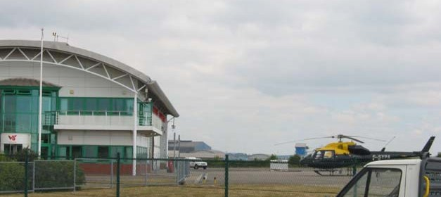 Cardiff Heliport